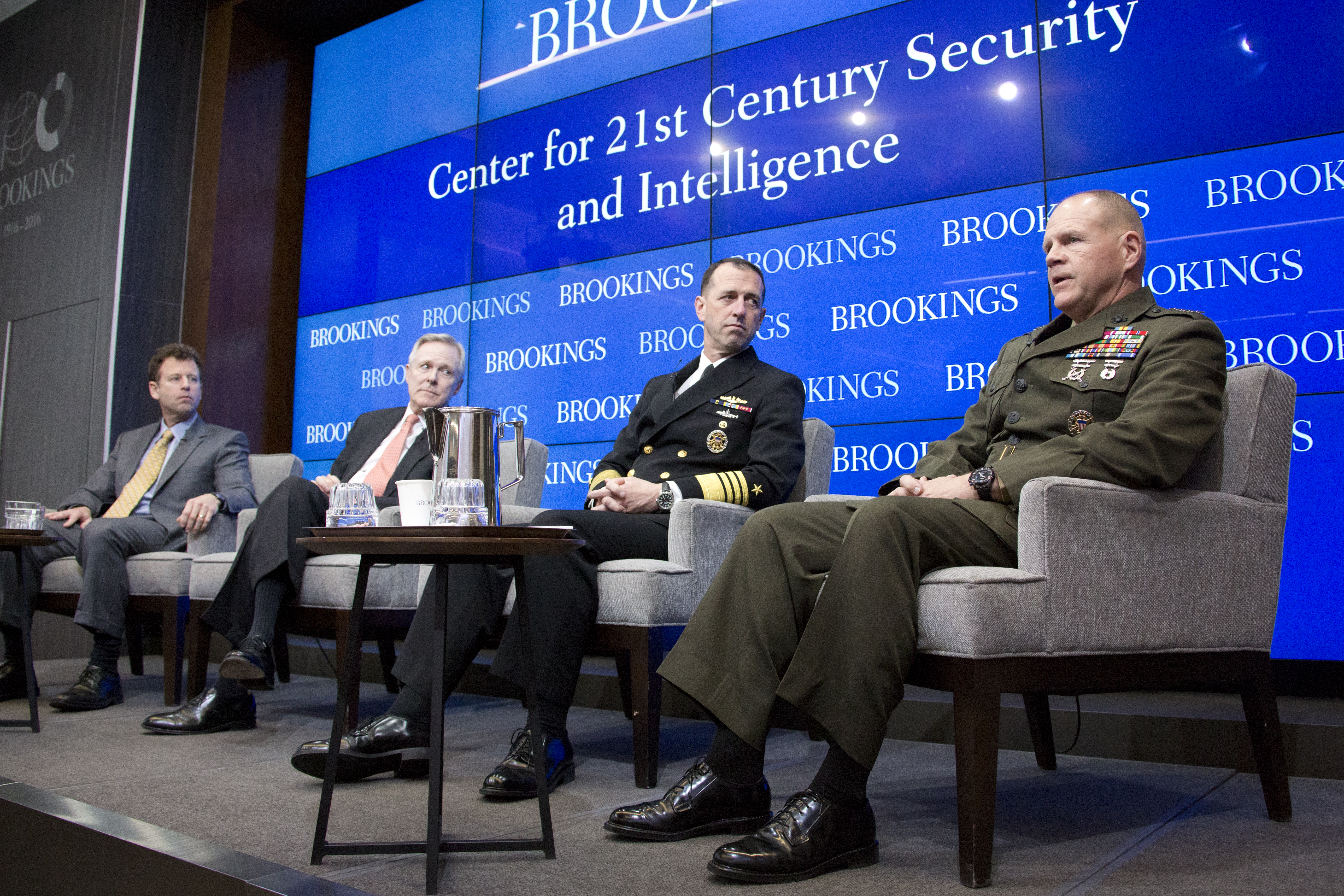 From left, Michael O'Hanlon, Secretary of the Navy Ray Mabus, and Chief of Naval Operations Adm. John M. Richardson listen to Commandant of the Marine Corps Gen. Robert B. Neller, during an event with the Center for 21st Century Security and Intelligence at the Brookings Institution, Washington, D.C., Feb. 26, 2016. Mabus, Richardson, and Neller discussed the future maritime concepts, strategies and technologies with O'Hanlon as the moderator. (U.S. Marine Corps photo by Staff Sgt. Gabriela Garcia/Released) Unit: HQMC Combat Camera